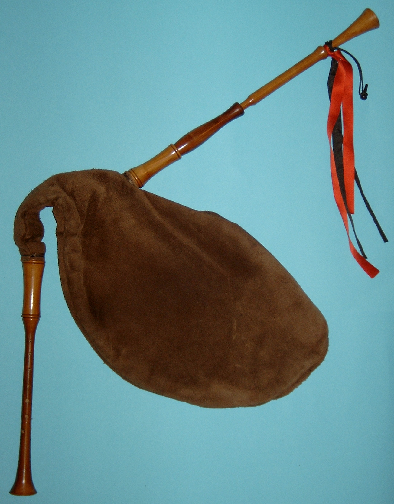 schaeferpfeife, simple form chanter (conical bore, equipped with double-reed), scale range: c2d2–eb3 drone (cylindrical bore, equipped with single-reed) can be tuned to: c0, d0